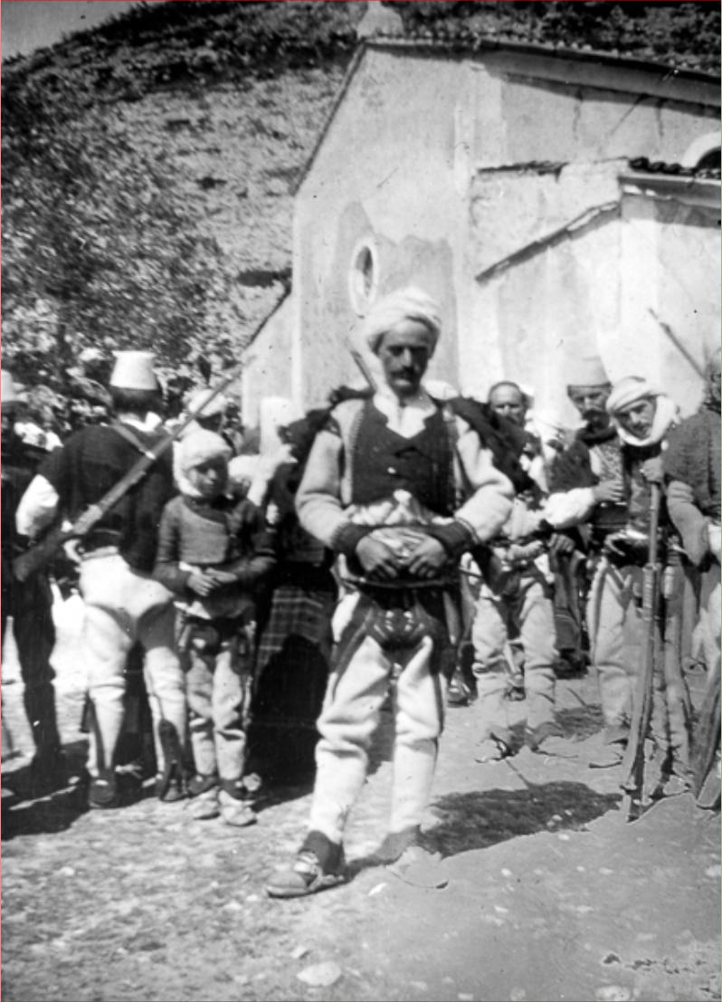 ED013_RAI 400.13171 Albania. Bzheta. Men of the Shkreli tribe at the feast of Saint Nicholas at Bzheta in Shkreli territory (Photo: Edith Durham, 10 May 1908).